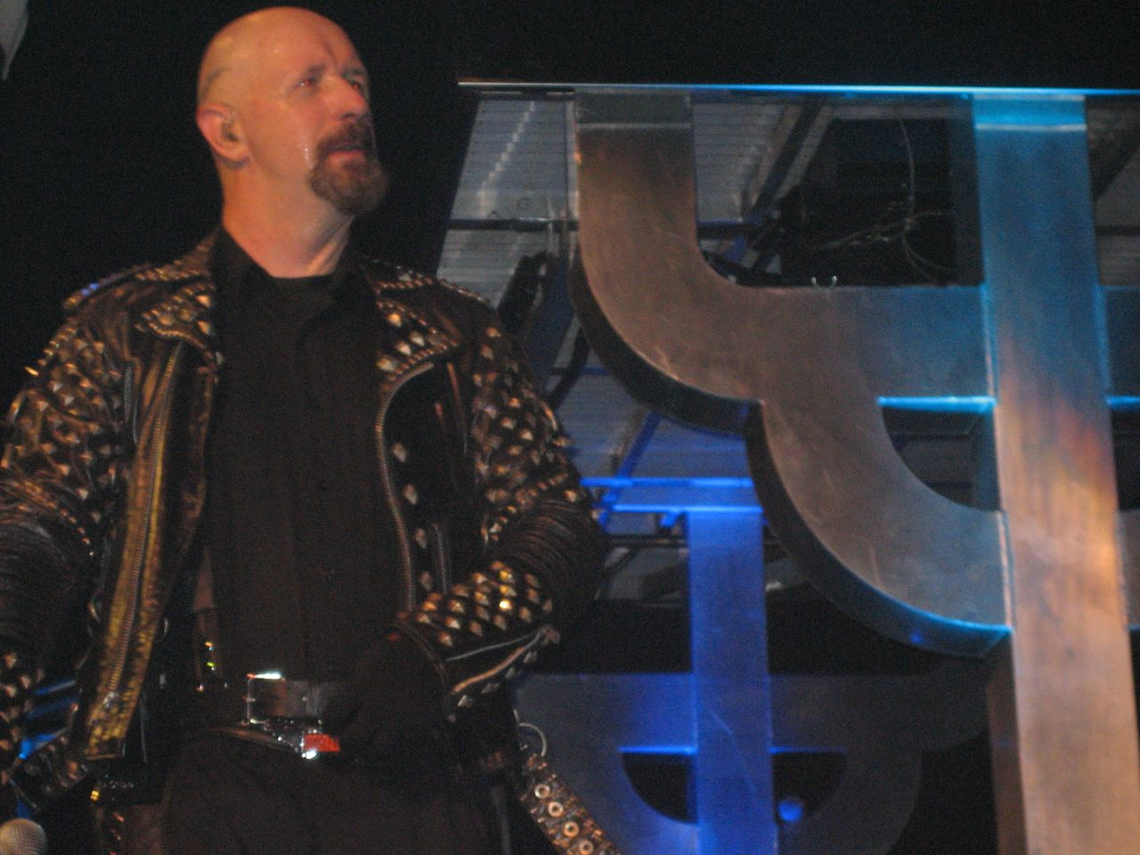 Rob Halford at the Judas Priest Retribution 2005 Tour at he Mark of the Quad Cities, Moline, Illinois.